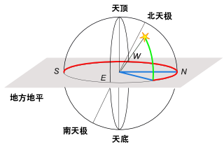 Azimuth and altitude. Image made Inkscape (SVG to PNG: problems with Inkscape)